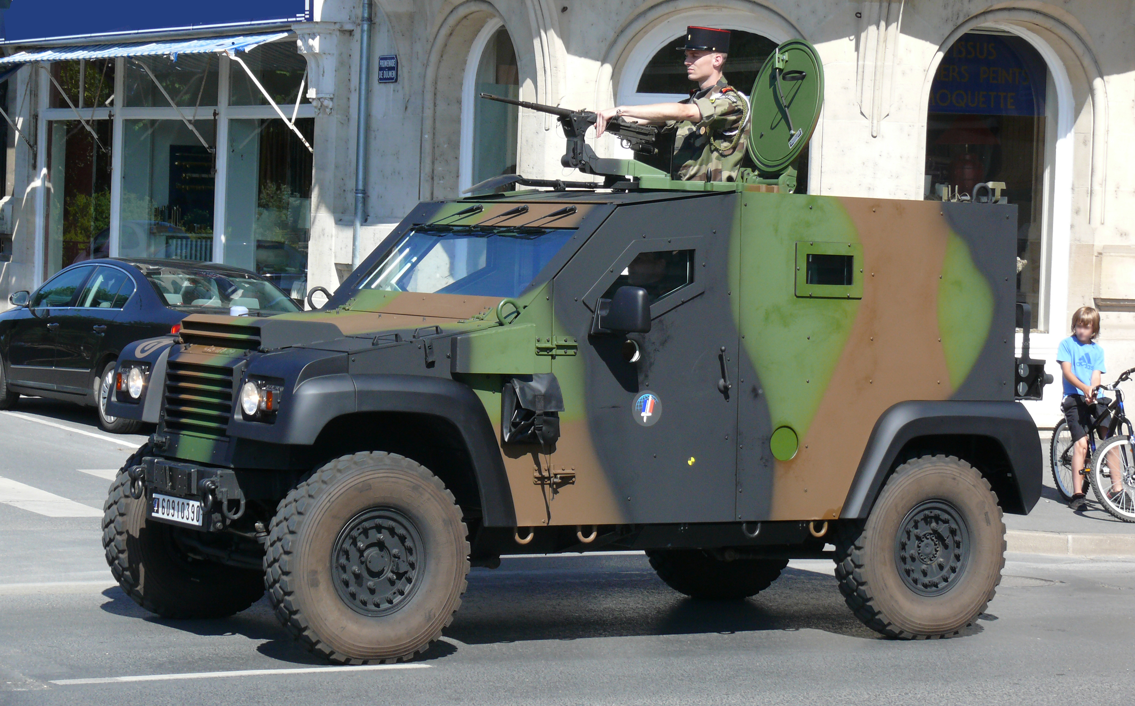 Petit Véhicule Protégé of the 3rd regiment engineers, 1st Mechanised Brigade of the French Armée de Terre during the Bastille Day Parade in Charleville Mézières, 2010.